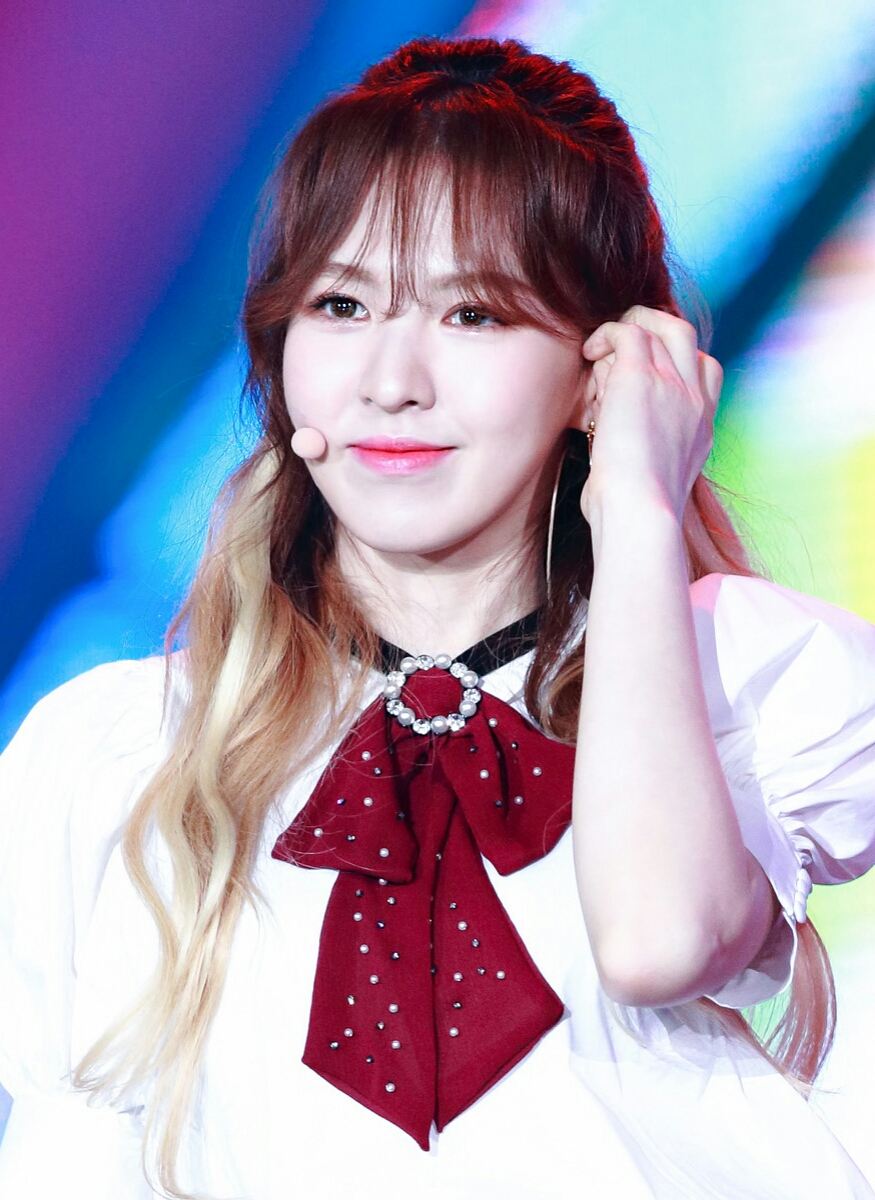 Wendy Son at Korea Music Festival 2017 on October 01, 2017.